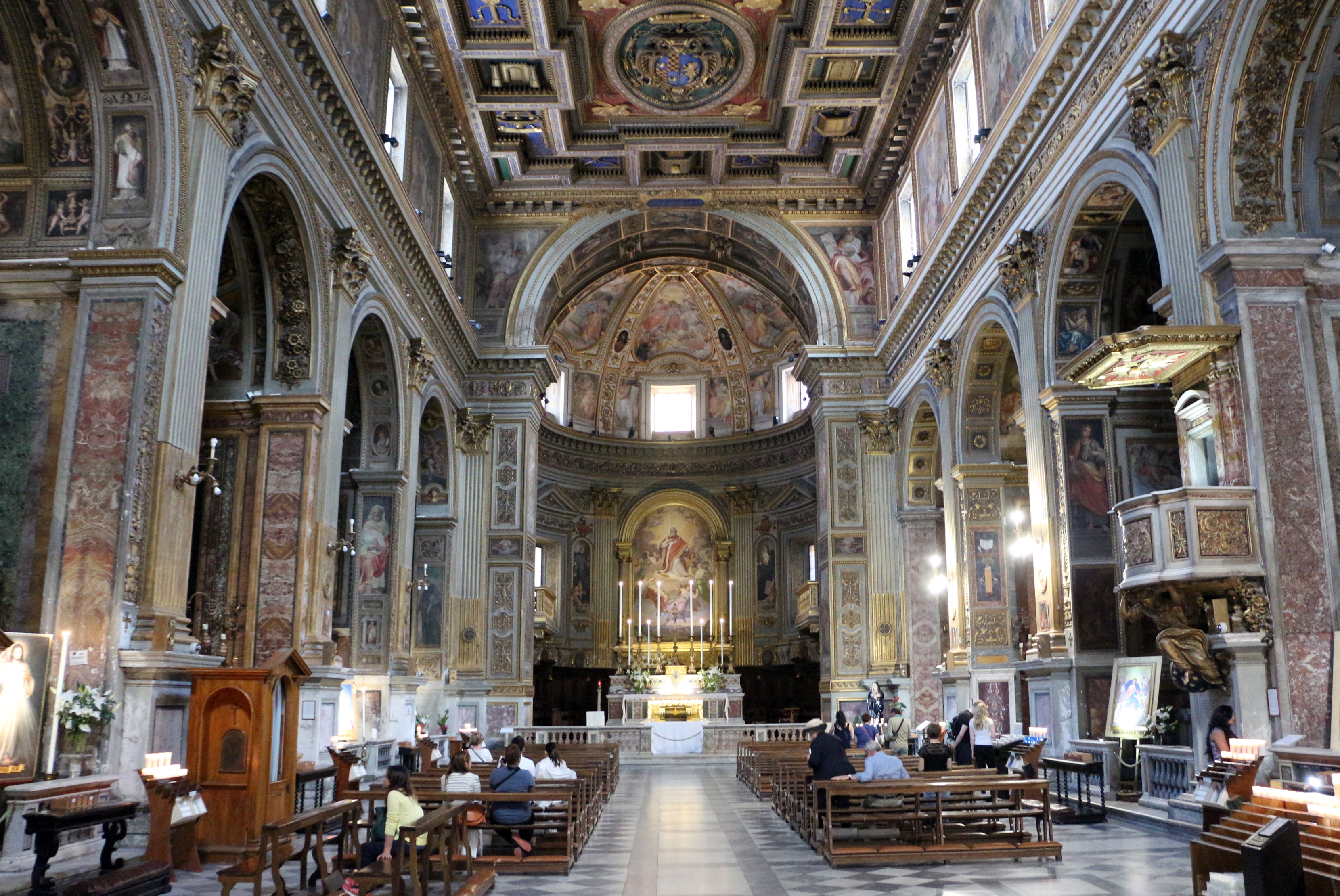 San Marcello al Corso (Rome)